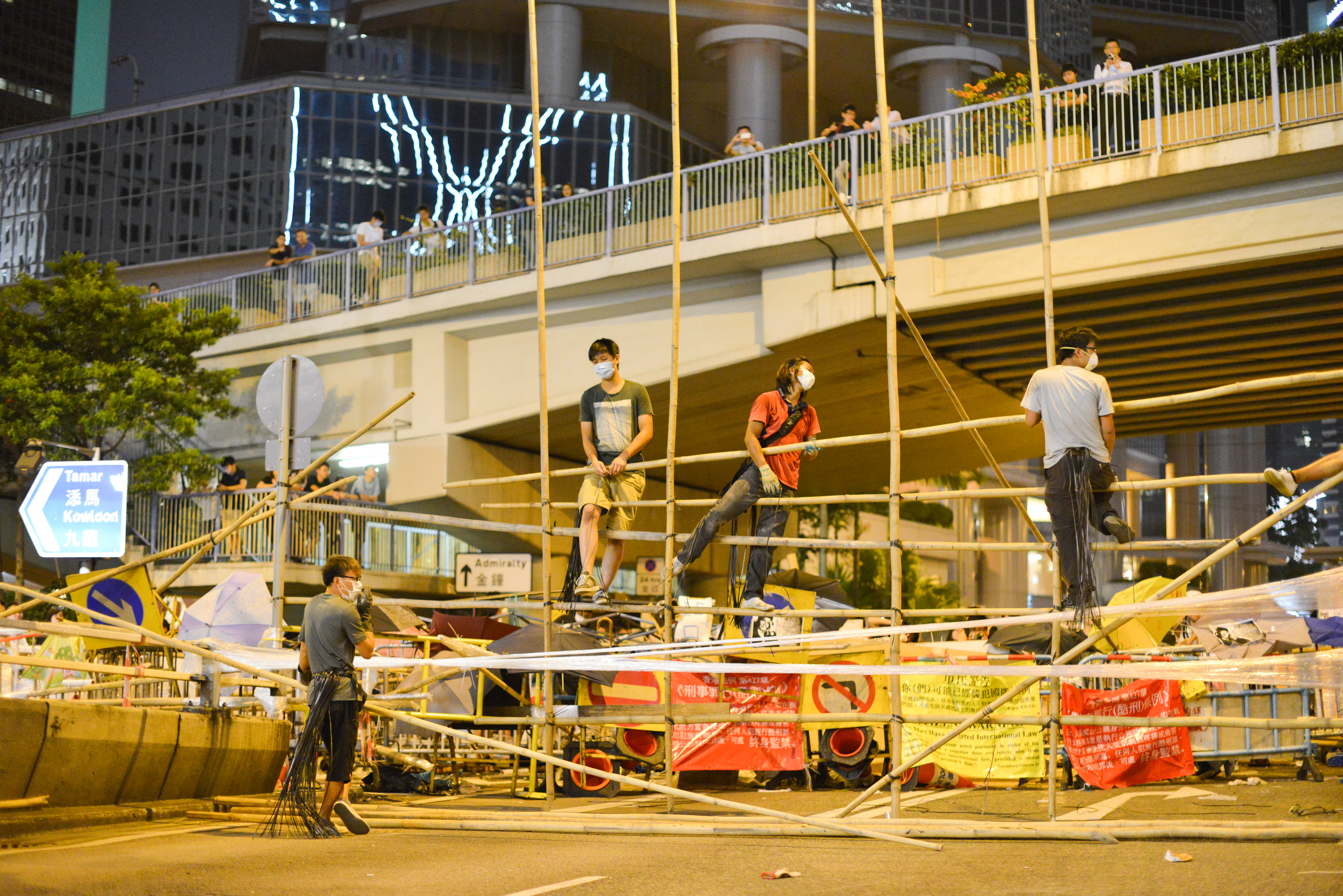 Umbrella Revolution Admiralty Site Construct Bamboo_